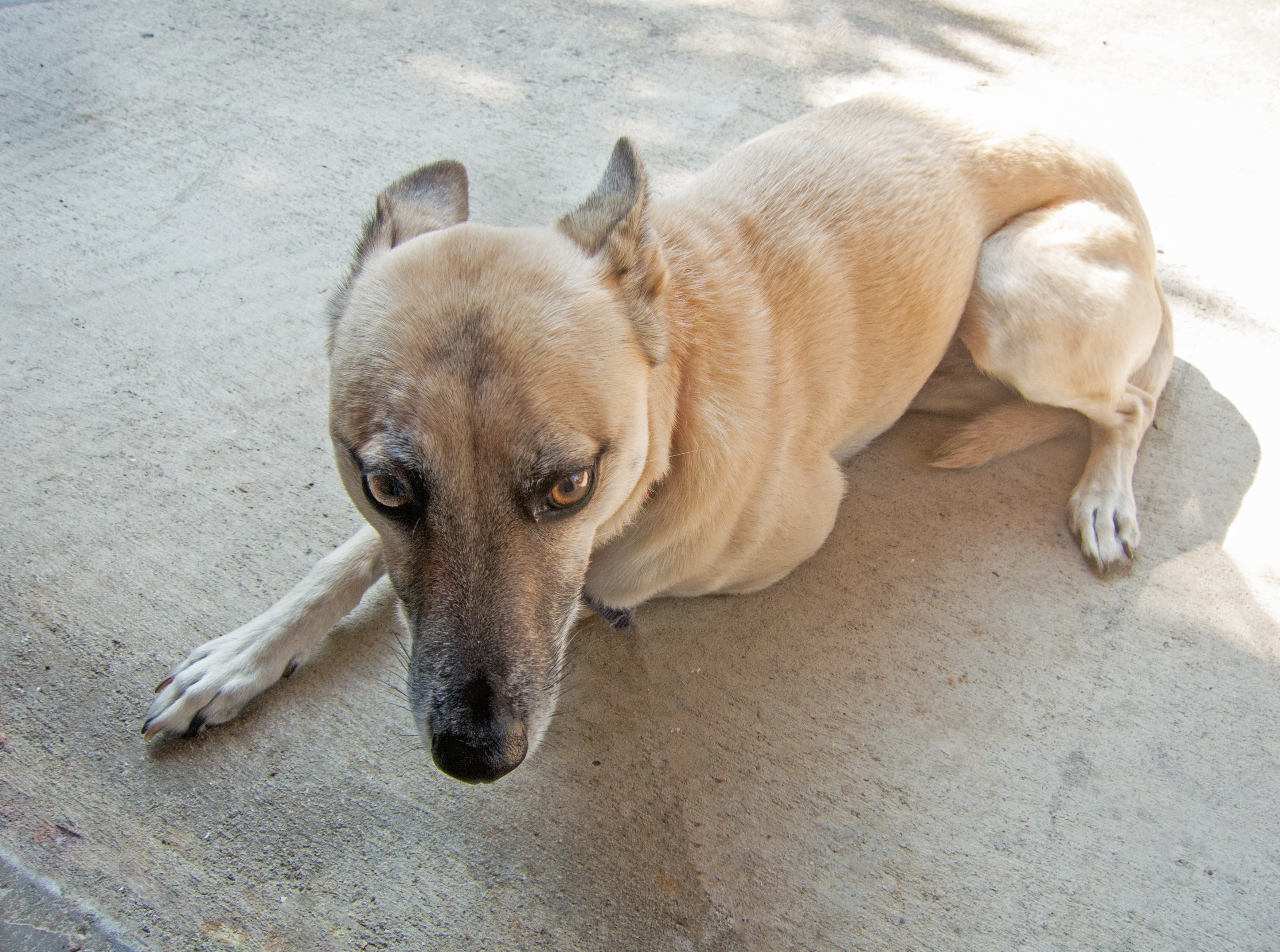 Scared and submissive dog: Ears back, body tucked tightly together, tail between legs, lying instead of standing.